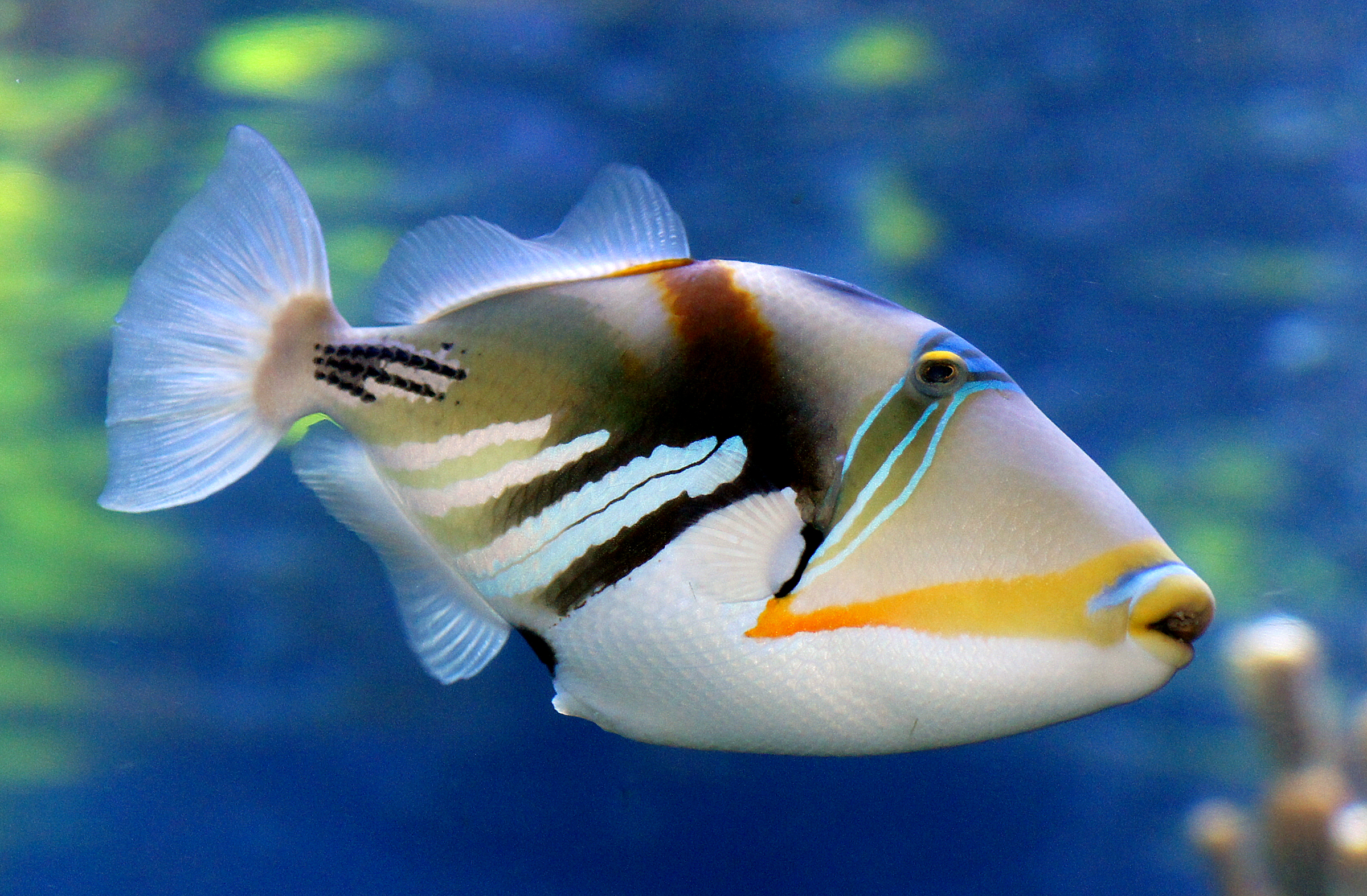 The reef, rectangular, or wedge-tail triggerfish, also known by its Hawaiian name, humuhumunukunukuāpuaʻa (pronounced [ˌhumuˌhumuˌnukuˌnukuˌwaːpuˈwɐʔə]), also spelled Humuhumunukunukuapua'a or just humuhumu for short; meaning "triggerfish with a snout like a pig." is one of several species of triggerfish. Classified as Rhinecanthus rectangulus, it is endemic to the salt water coasts of various central and south Pacific Ocean islands. It is often asserted that the Hawaiian name is one of the longest words in the Hawaiian language and that "the name is longer than the fish."